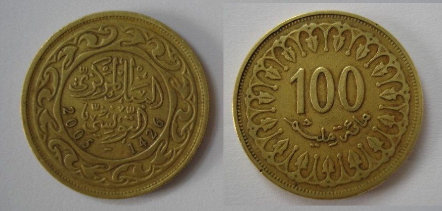 100 Tunisian millimes, 2005, Tunisia